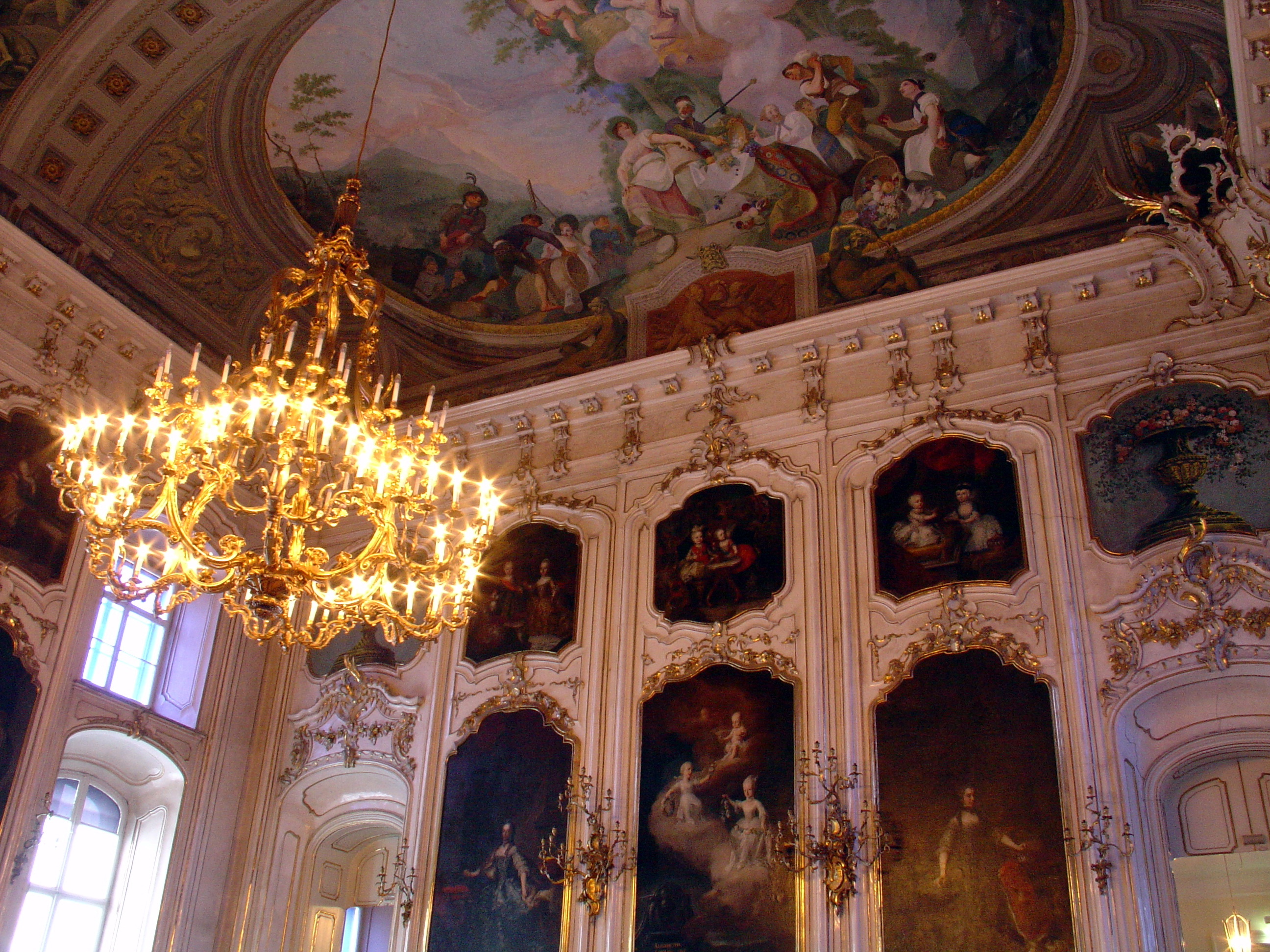 Hofburg Innsbruck Giants' Hall